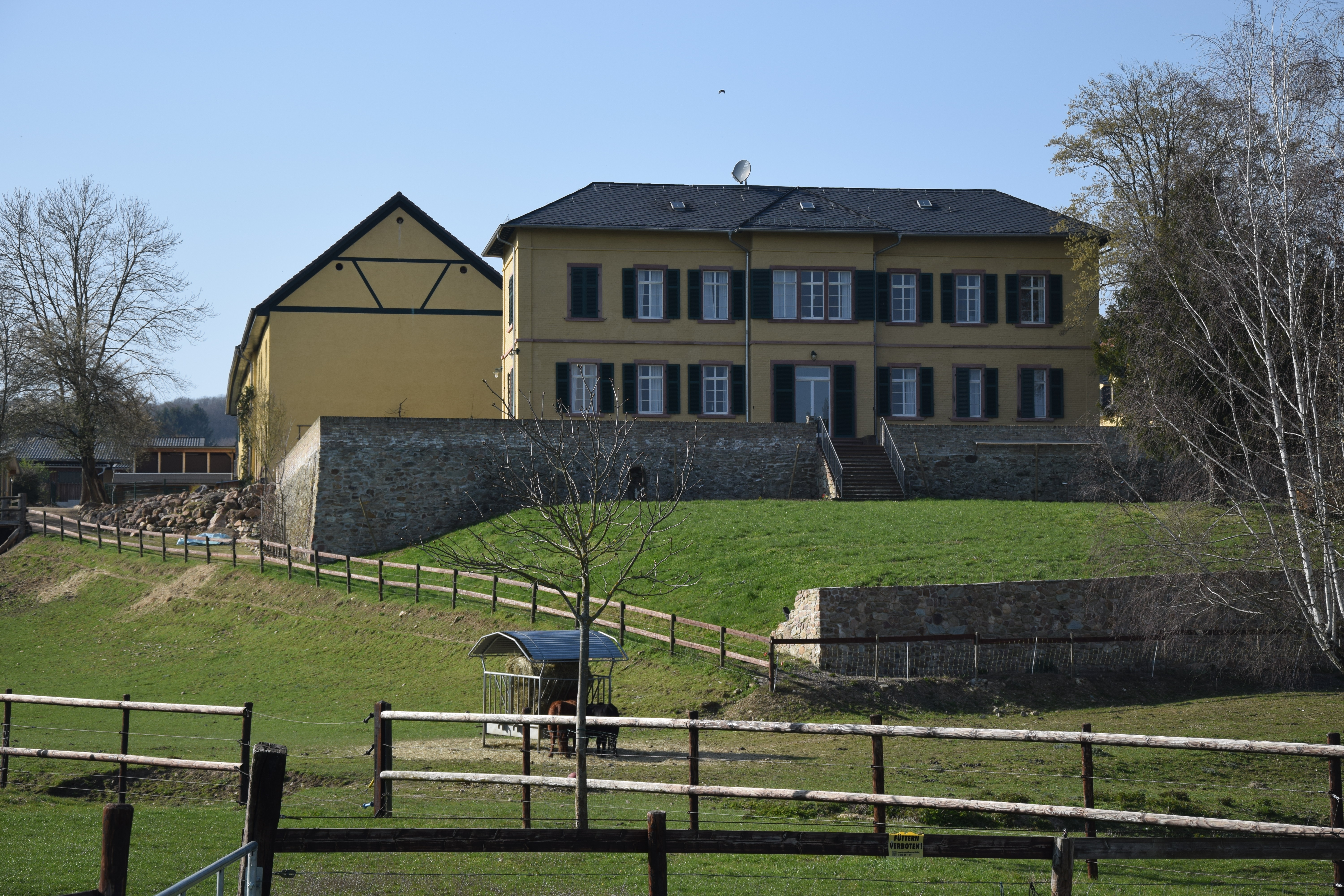 Wiesbaden Frauenstein Hof Armada